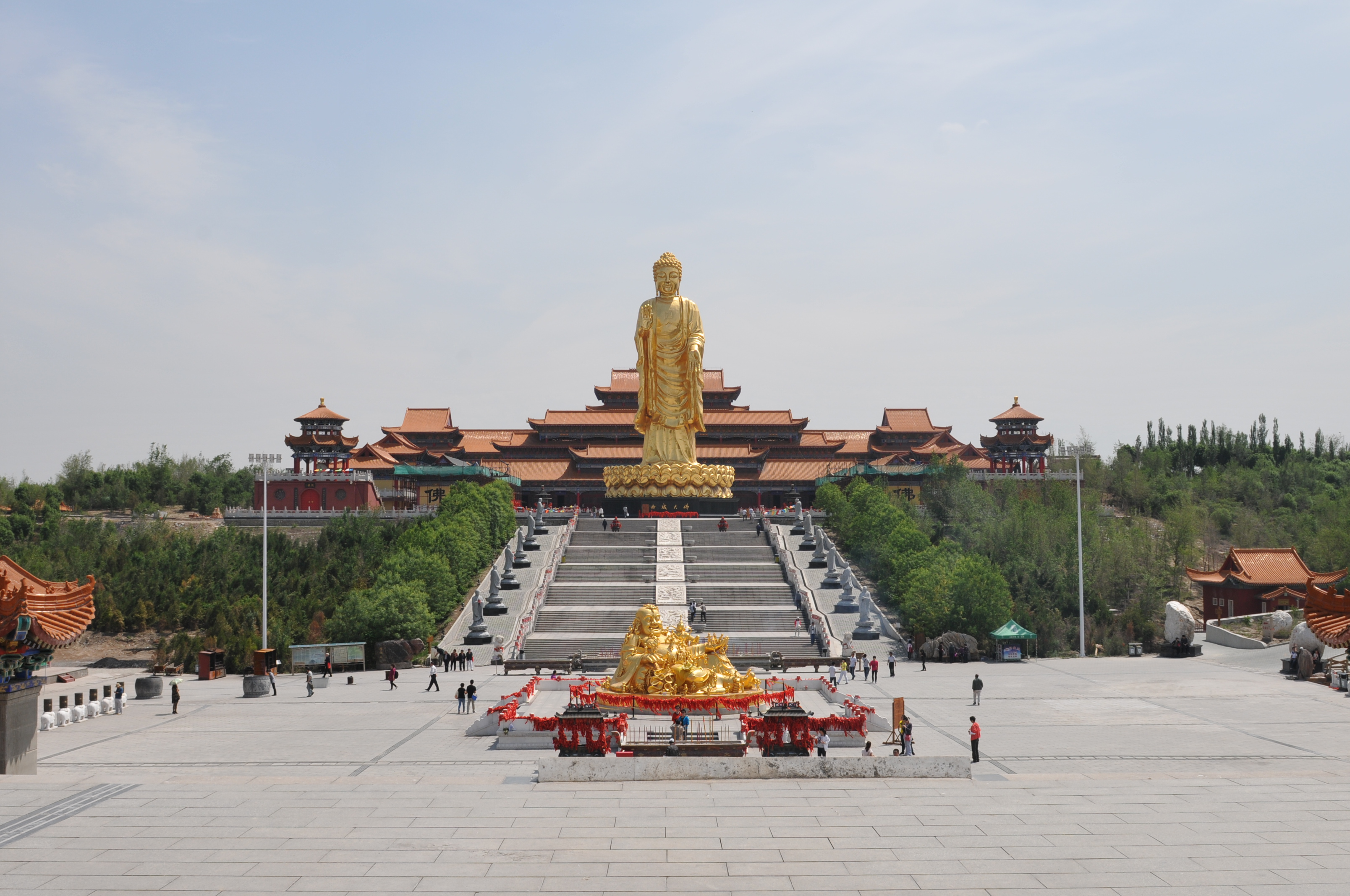 Temple with great Buddha statue in Midong, Urumqi, Xinjiang.